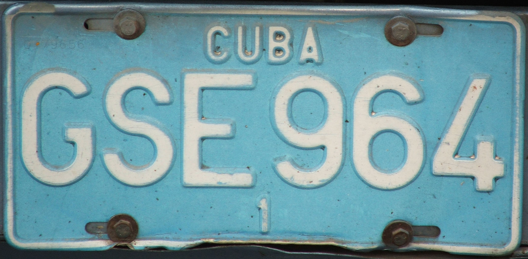 Cuban registration plate as seen in 2009.